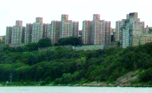 I cropped this image of Castle Village from Image:DSCF7605.JPG which was taken by user:Pacific Coast Highway in July 2005 and released by him to the public domain. To the extent that my cropping might be construed as creating an additional copyright interest, I release it to the public domain as well. --agr 11:02, 5 April 2006 (UTC)